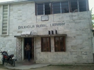 rural libraray